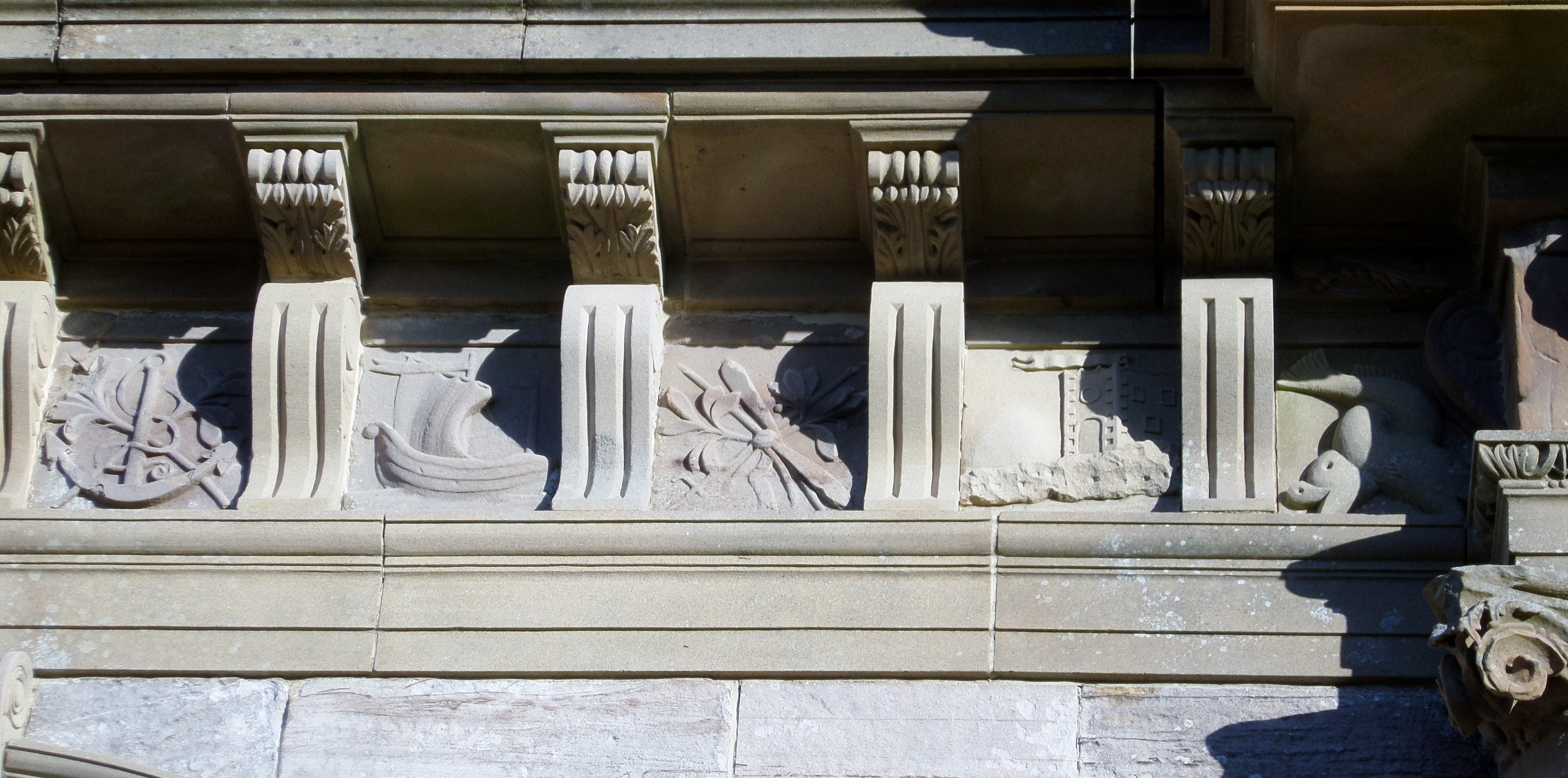 Macrae Monument, Monkton, South Ayrshire, Scotland. Detail of west facing side. Fine detail of carving